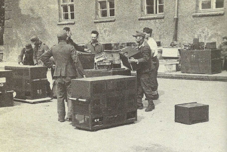 "German prisoners prepare the "Russian Fish" for loading and shipment to England. These are the only pictures of this highly secret equipment ever published." (caption from Thomas Parrish, The Ultra Americans, original source of the picture).